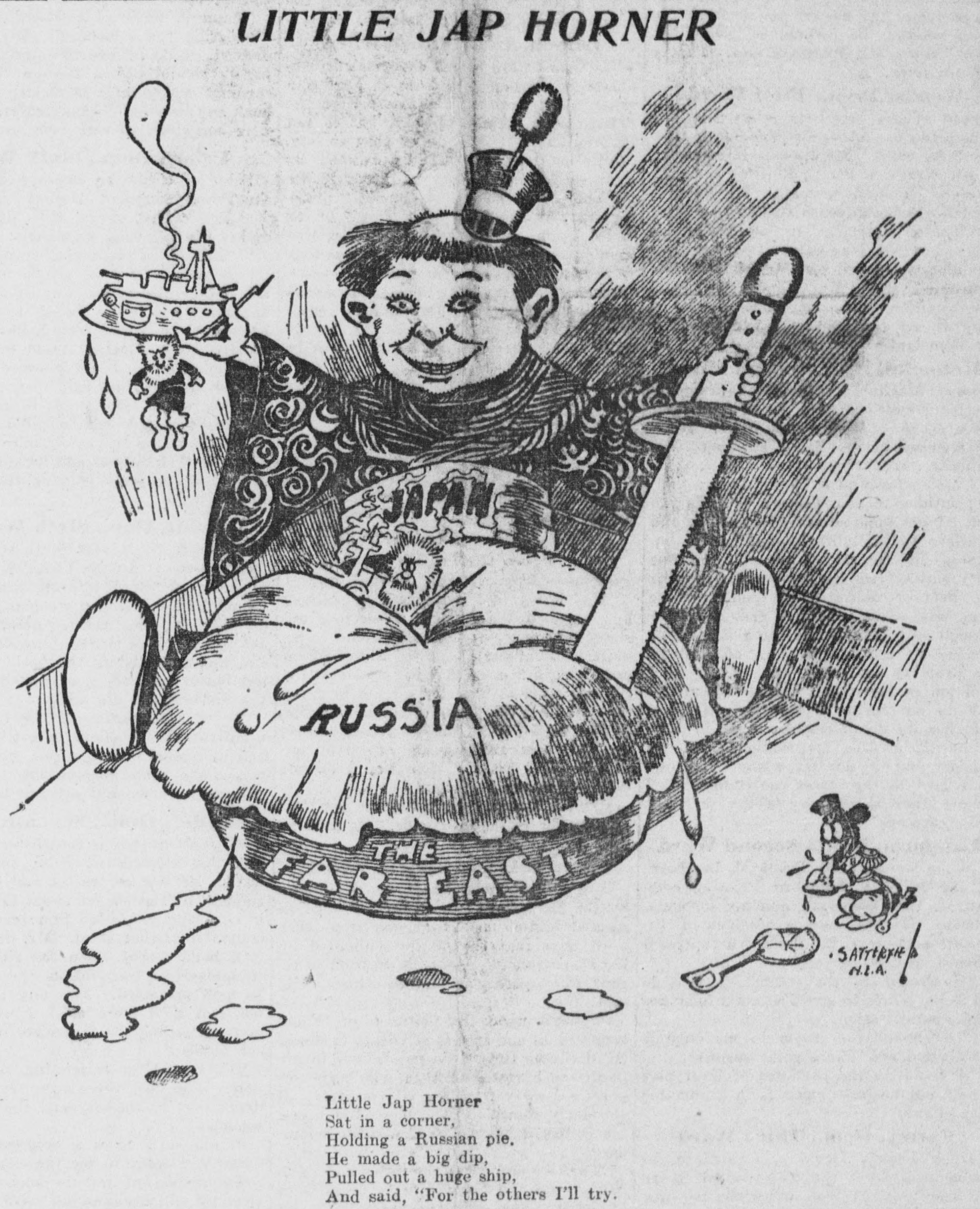 Imperial Japan is portrayed as "Little Jack Horner": Little "Jap" Horner sticks a sword into a pie, rather than his thumb, and pulls out a Russian battleship. Below the cartoon is a poem: Little Jap Horner Sat in a corner Holding a Russian pie. He made a big dip, Pulled out a huge ship, And said, "For the others I'll try."